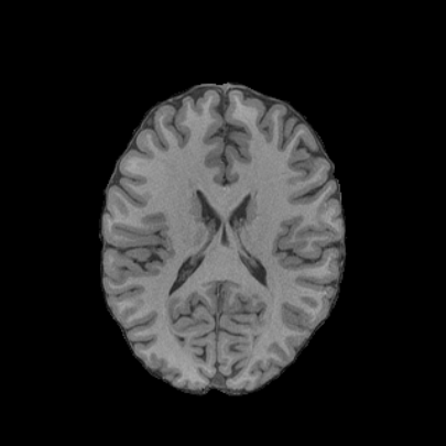 T1 image of brain. I performed a filtering on the brain to exclude the skull and some of the peripheral fat. I also used a technique (with the same software), to reduce the inhomogeneity that the image had. See the resulting Histogram at: Image:MANGO histogram 0001.png Both the uploader, and the software (MANGO), are based in UTHSCSA, and the software is free, and produced by our department